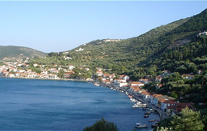 Ithaca's capital, Vathi, on the south of the island. Photo by Rien Post.